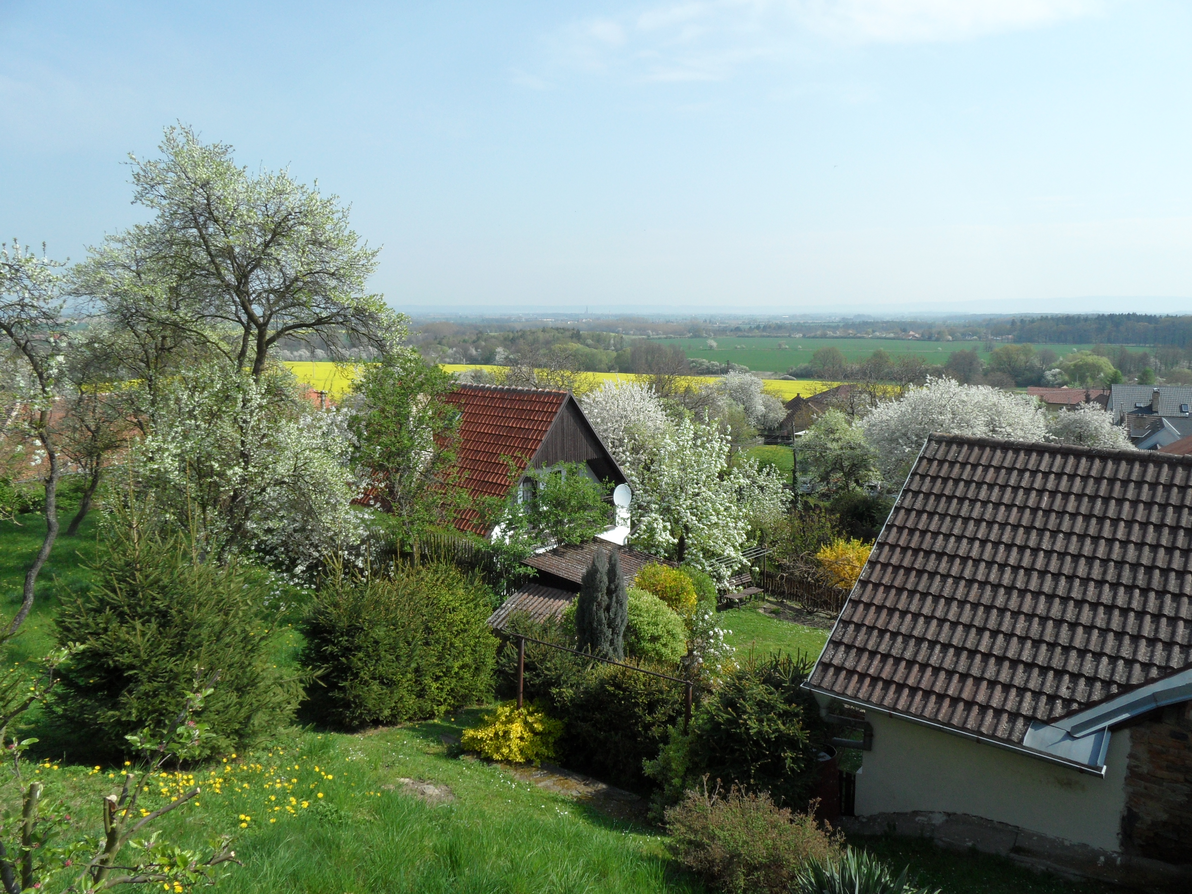 Třebonín E. View from Church's Garden, Kutná Hora District, the Czech Republic.